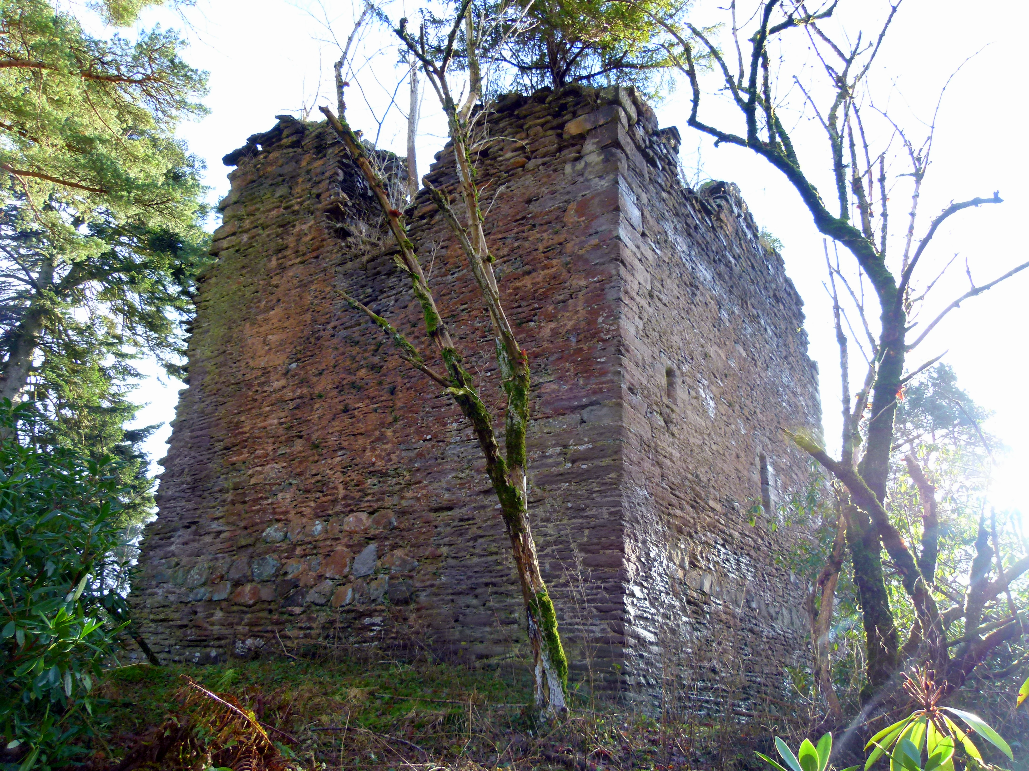 Remains of tower house, Castle Cluggy, which sits beside Loch Monzievaird. Definitely there in the 15th century, but may date from the 12th century. Castle Cluggy, lies on the north side of the Loch Monzievaird, on the Dry Isle. As a “rickle of stones” it may have been built as early as the 12th Century sometime after the Battle of Monzievaird in 1005. This battle was fought between Malcolm II and the usurper to the throne Kenneth IV (the Grim) who was slain there. The castle is situated on a little peninsula (which once was an island) called the “Dry Isle.” Originally thought to have been one of the possessions of Bruce’s great rival, the “Red Comyn”, it was classified in 1467 under a charter of confirmation as being “Antiquum Fortalicium”, a very old place. It was an early centre of dispute between the two families. It had been the home of Earl Malise, Earl of Strathearn, and the first recorded Murray to occupy it was Patrick Moray, third son of Sir David Moray of Gask and Tullibardine. The name changed to Murray through William, the third baronet. Castle Cluggy, at that time was in the possession of the Drummonds. It was a square-shaped structure, seventeen by twenty feet within its walls with at least two or more floors. Eventually was in the possession of the Murrays and was still complete with its fosse and drawbridge when Cromwell’s troopers came to visit it two hundred years later.